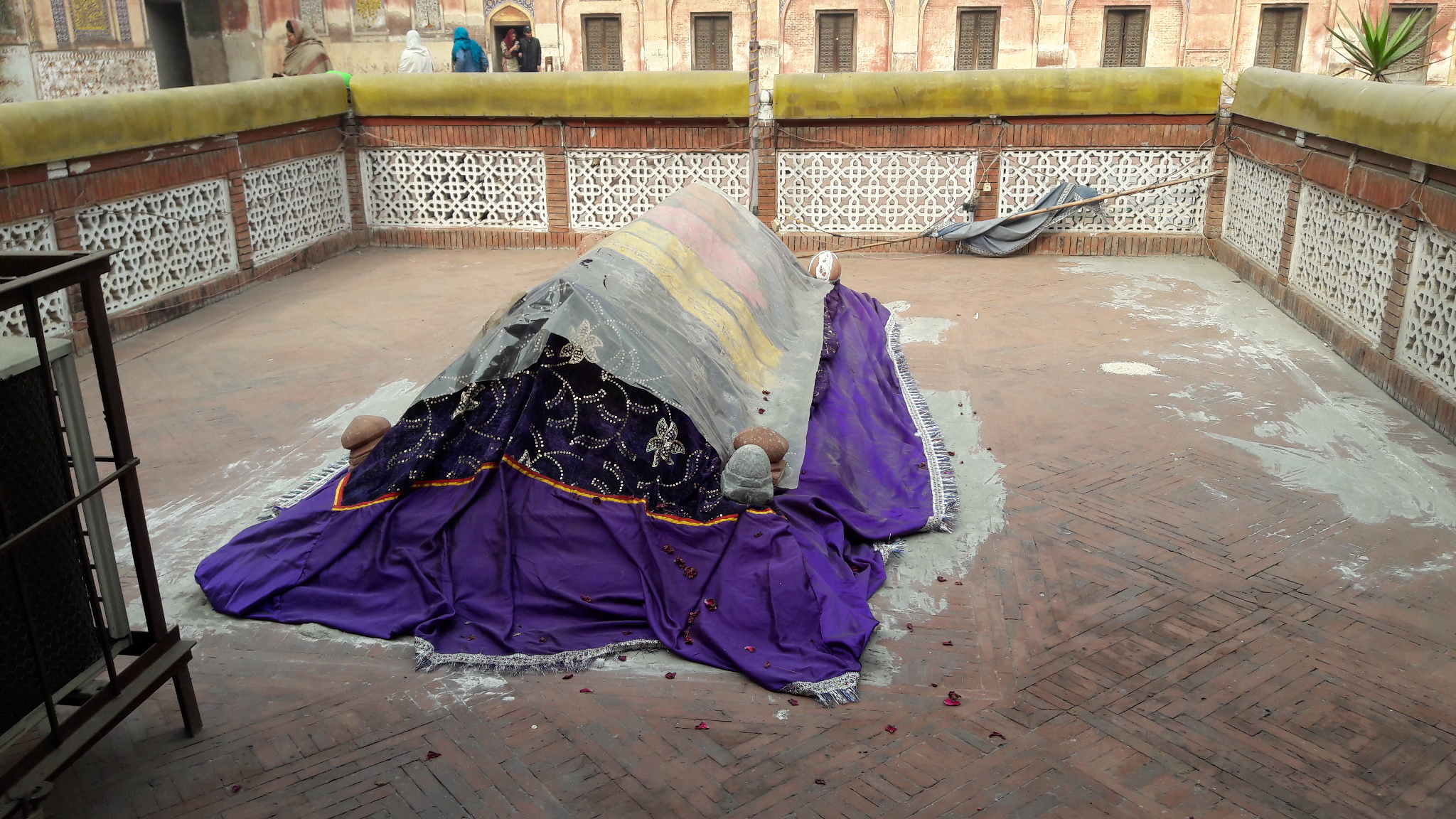 Syed Muhammad Ishaq Gazruni's Tomb